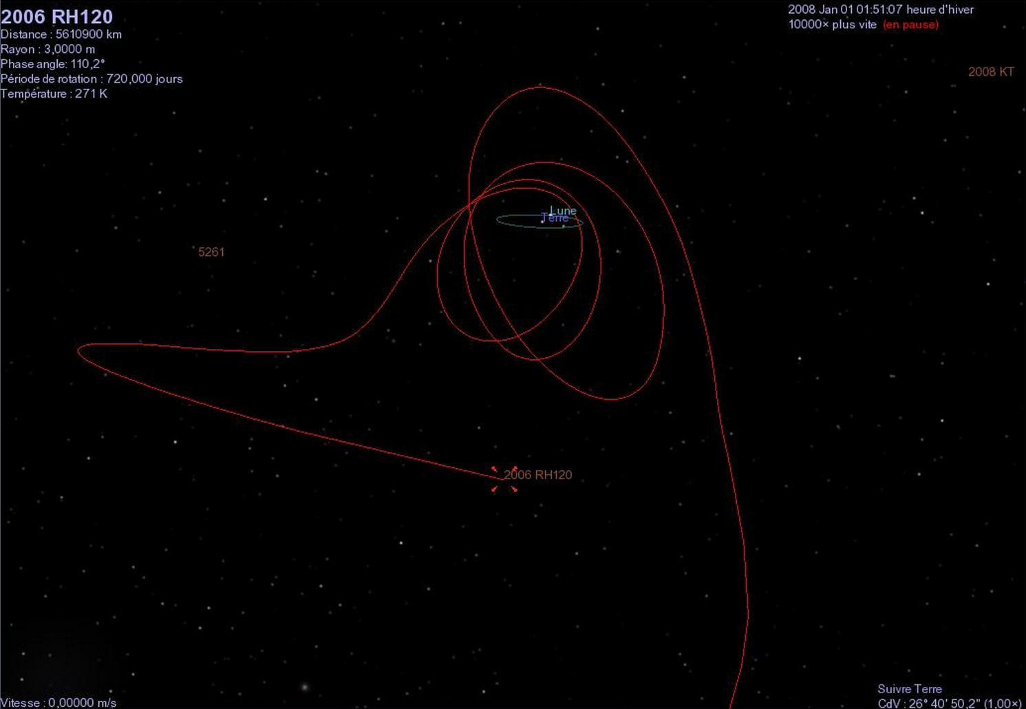 Diagram of the orbit for en:2006 RH120 during a period of time that it is orbiting the earth during a temporary satellite capture event.